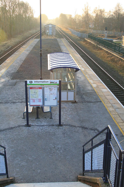 Duffield railway station Original description: Duffield Station An unmanned station with a central island platform.